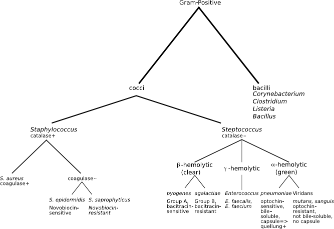 Gram-Positive Classification